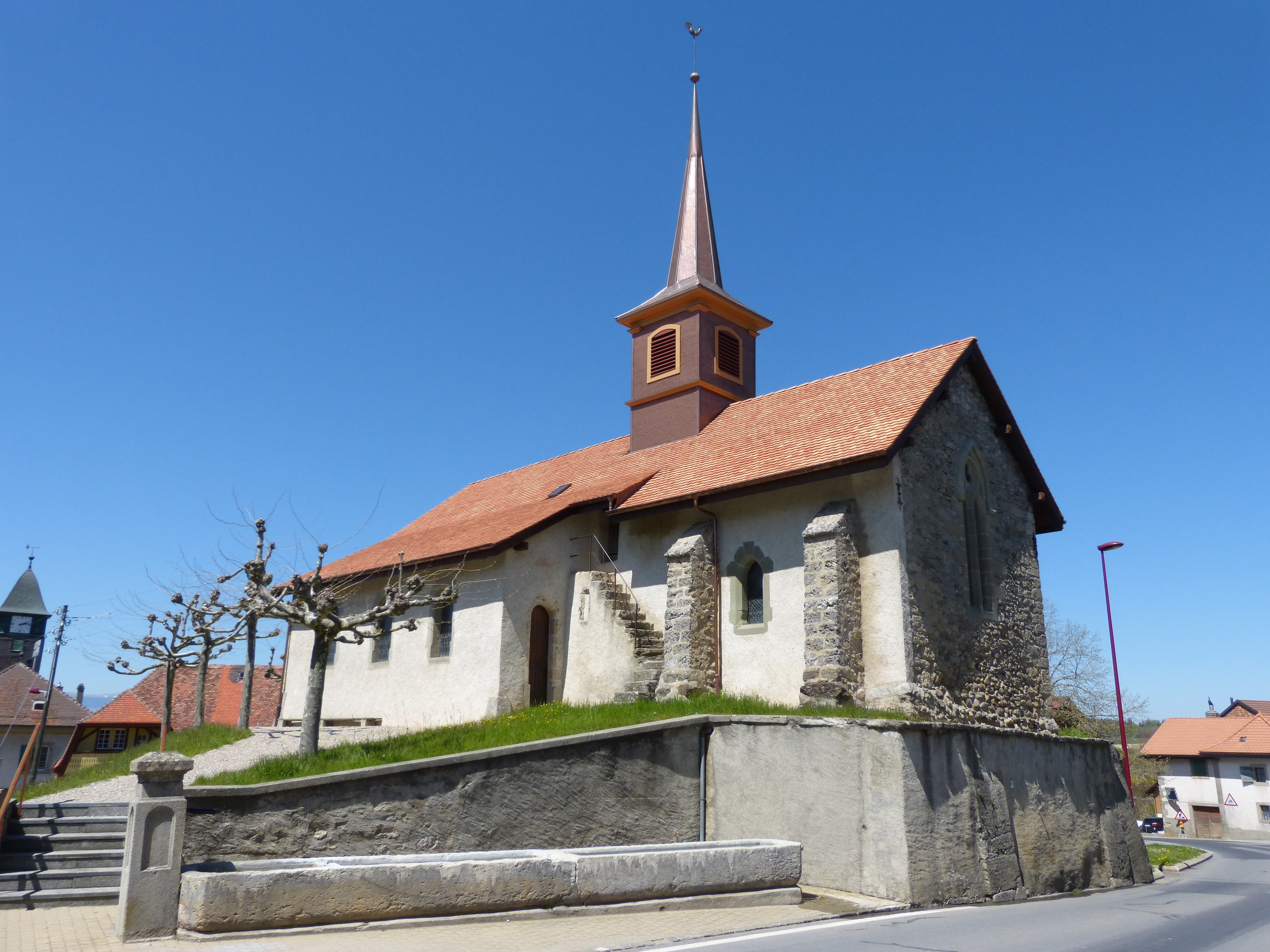 Reformed church of Thierrens.